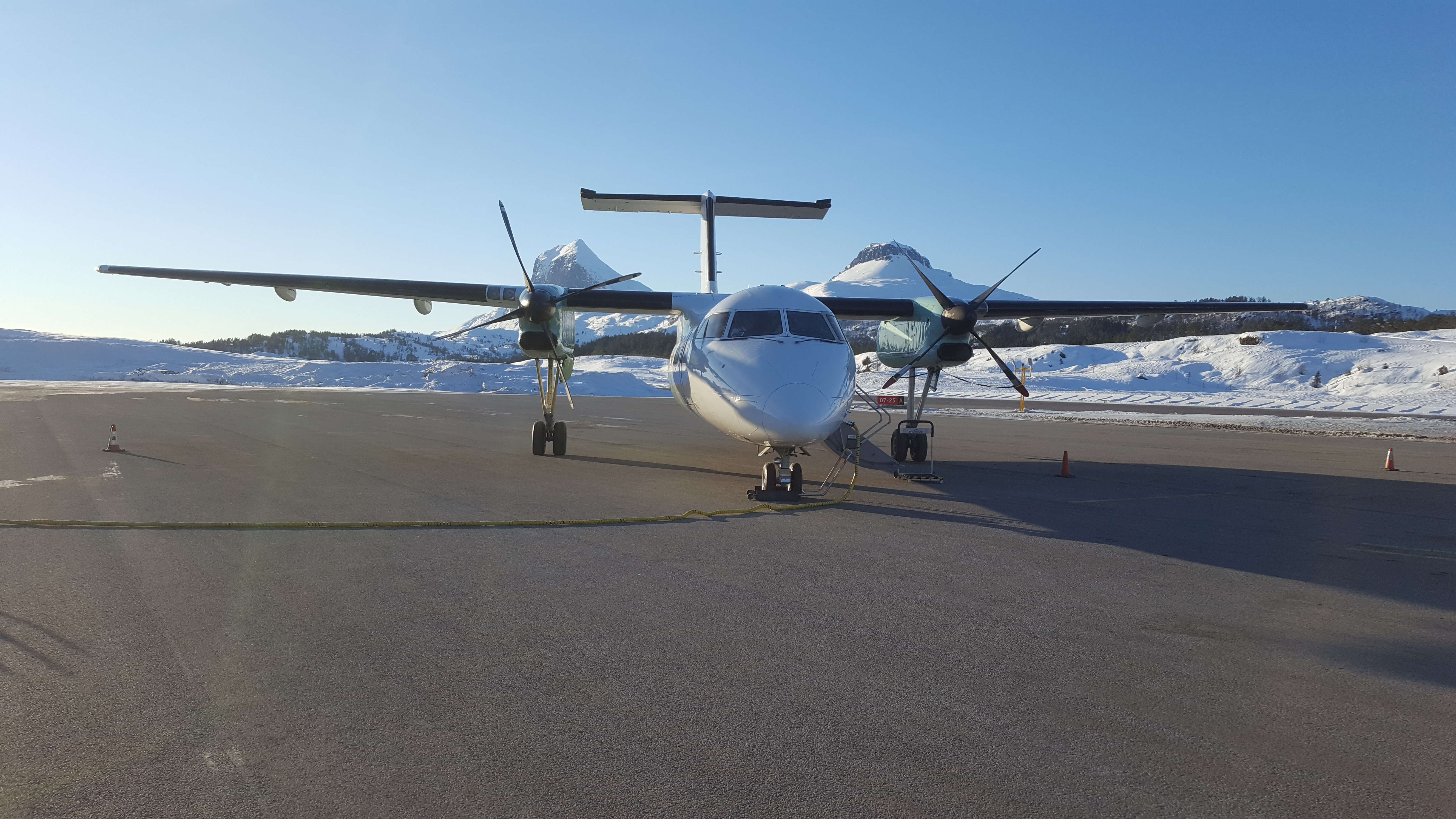 Dash 8 Q100 at Førde Airport during Winter 2018 with the Mountains Kvamshestane in the background.